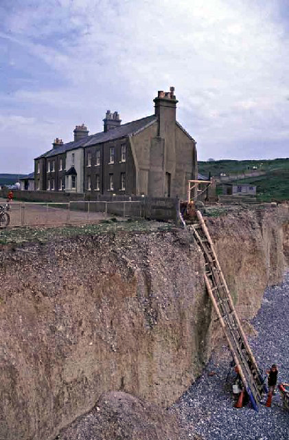 Birling Gap